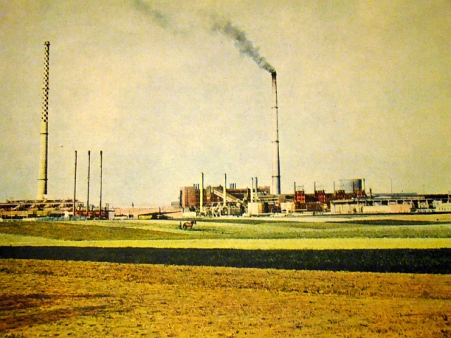 People's Republic of Poland